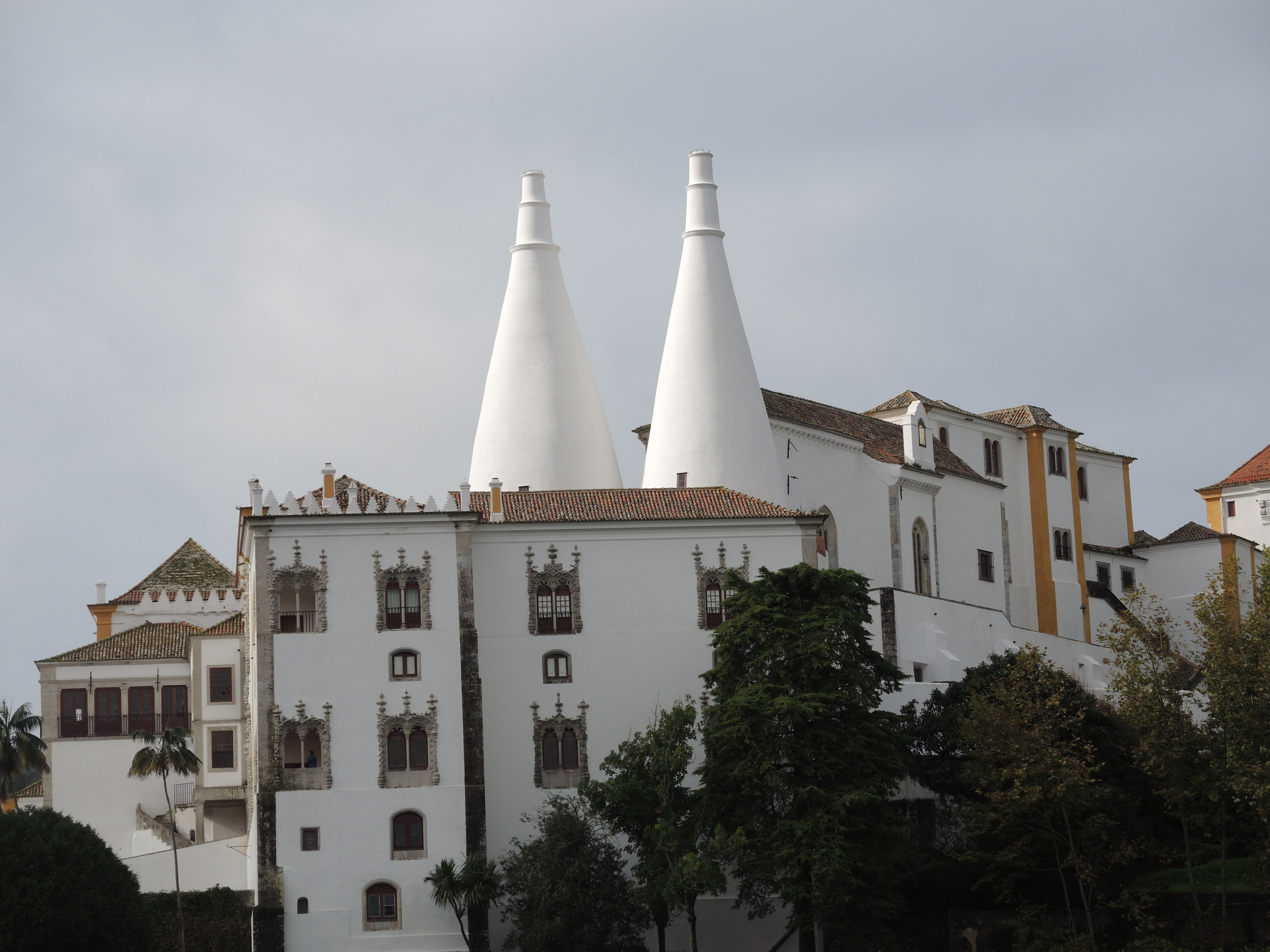 National Palace Sintra, Portugal